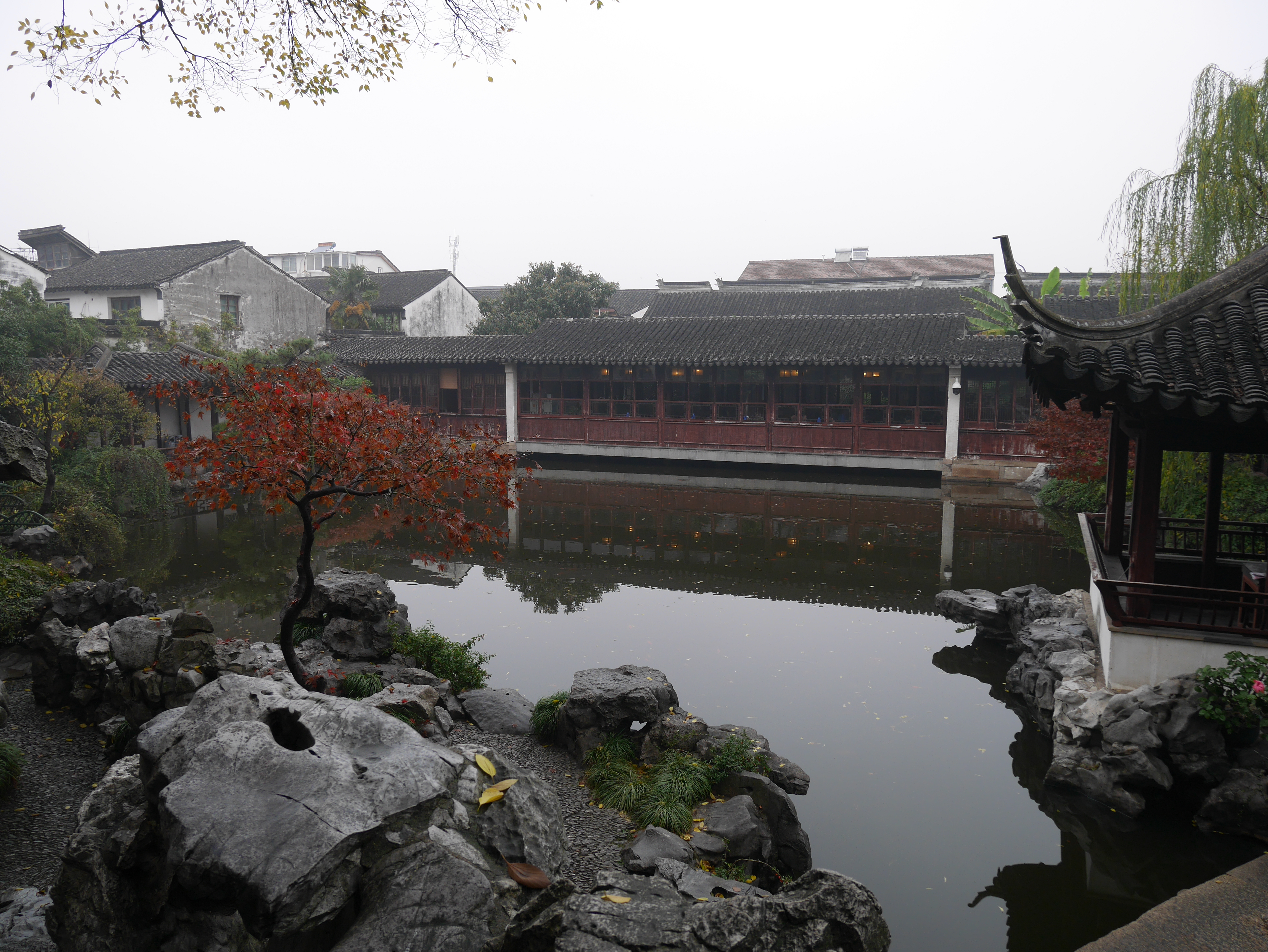 Pond and Hall of Longevity in Suzhou's Garden of Cultivation